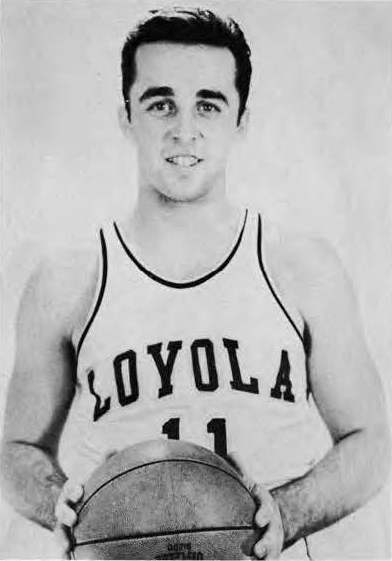 A page from the 1963 NCAA Annual National Collegiate Basketball Championship program